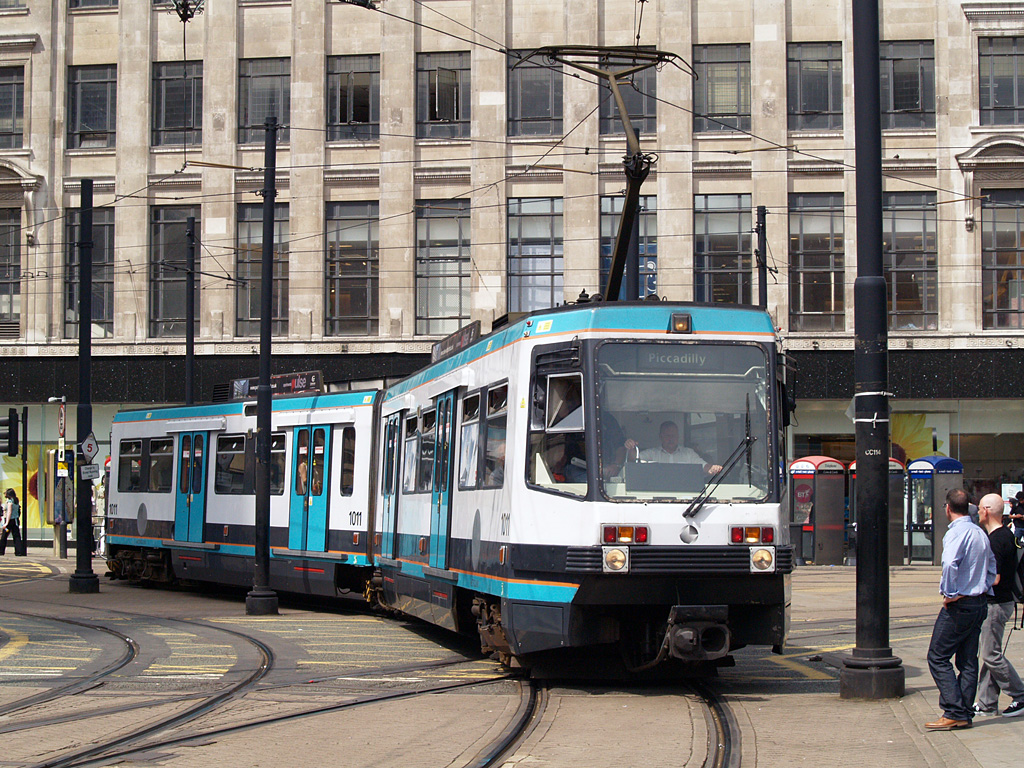 Greater Manchester Metrolink number 1011, an Ansaldo T68 (Phase 1) tram turns off Mosley Street, Manchester into Piccadilly Gardens with an inbound service for Manchester Piccadilly railway station service. Friday 25th July 2008